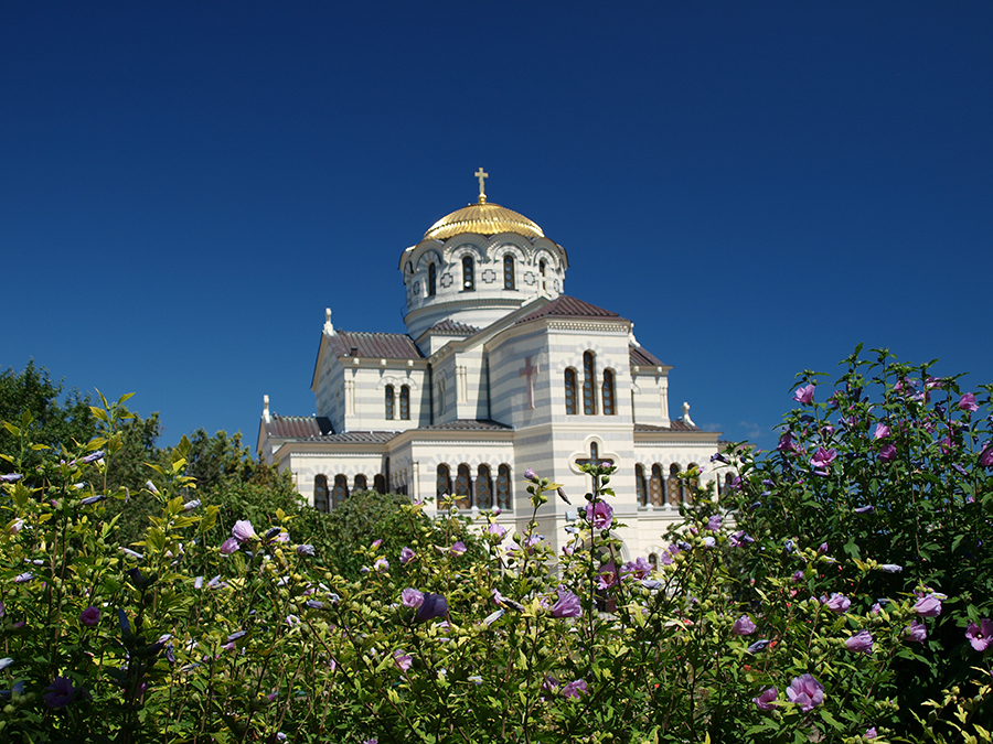 St. Volodymyr's Cathedral, Chersones, Crimea Српски (ћирилица): Храм св. Владимира, Херсон Тавријски код Севастопоља. Крим. Храм је изграђен на месту где је руски кнез Кијевске Русије био крштен у православој вери од стране византијских свештеника 988. године.